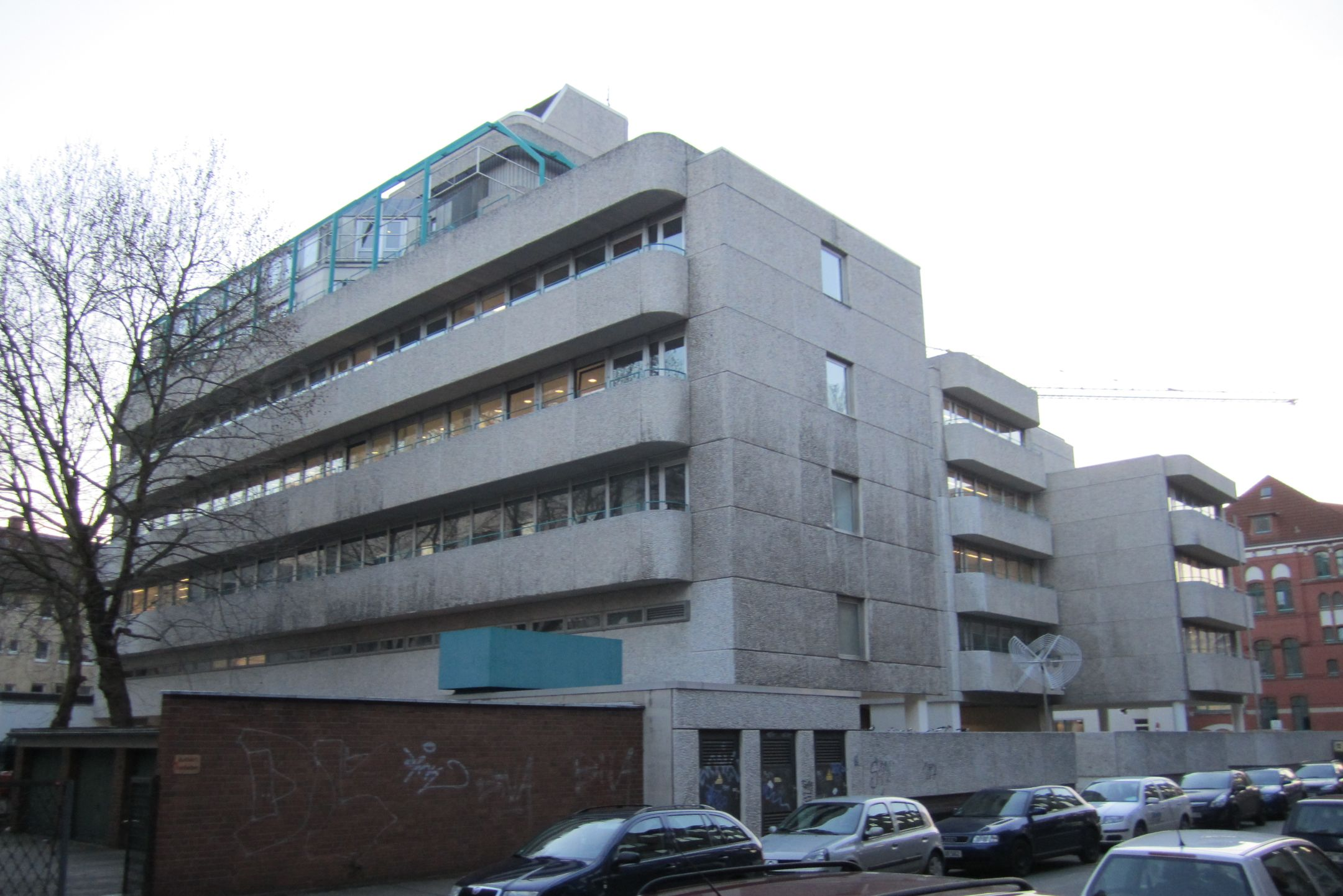 Niedersächsisches Studieninstitut - Kommunale Hochschule für Verwaltung in Niedersachsen, Hanover, Germany.